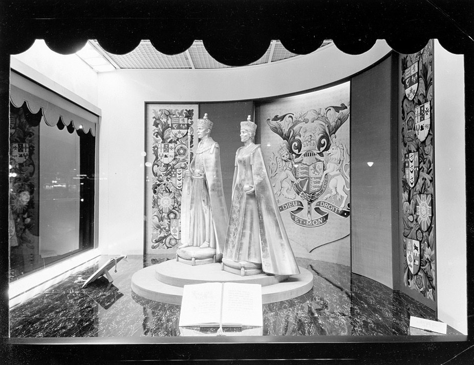 Eaton's department store window display for coronation of George VI. Toronto, Ontario, Canada.